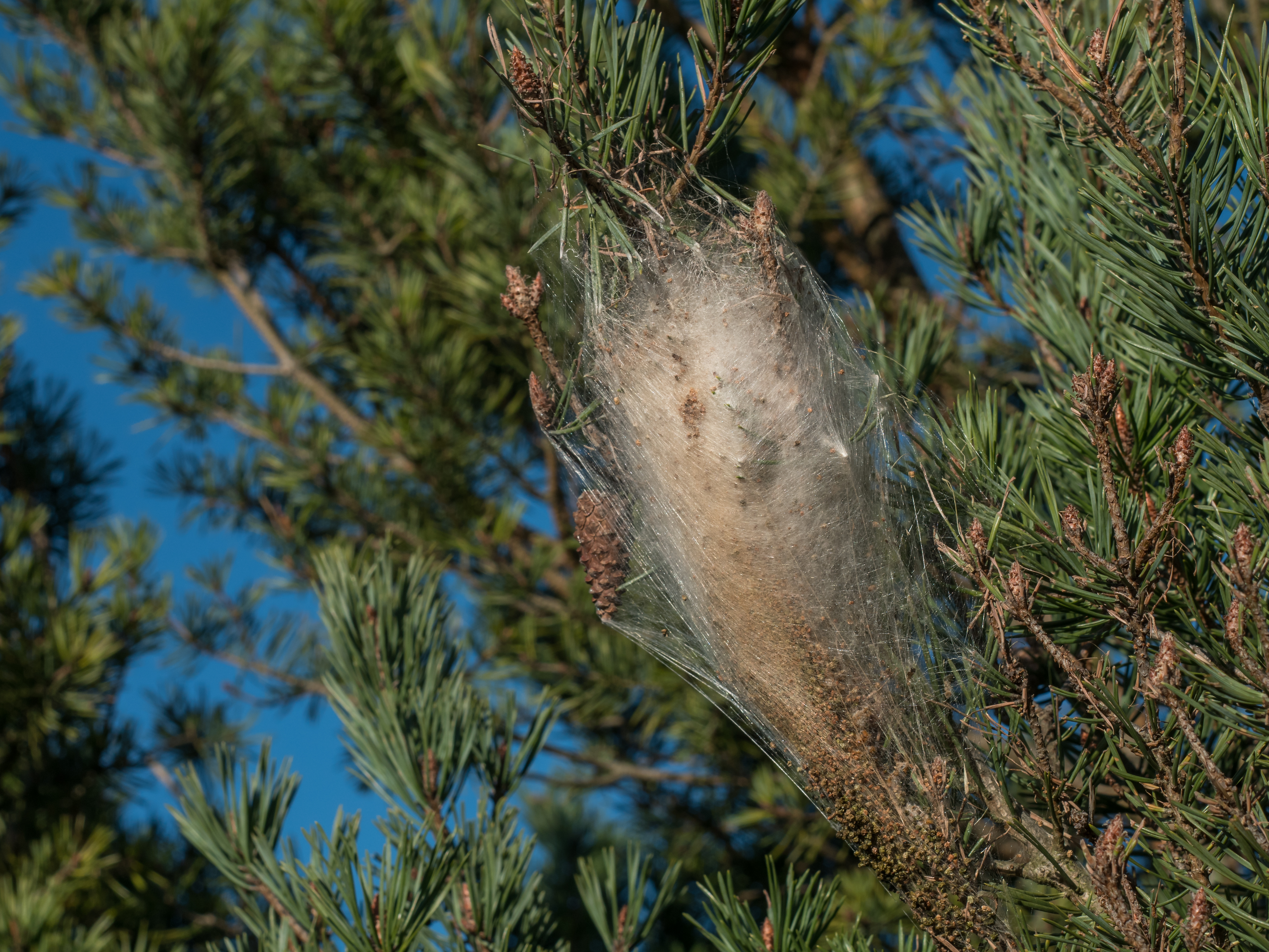 Tent of pine processionary (Thaumetopoea pityocampa) on a pine (Pinus sylvestris) in the north of the summit of Cerro de Treviño. Treviño County, Spain